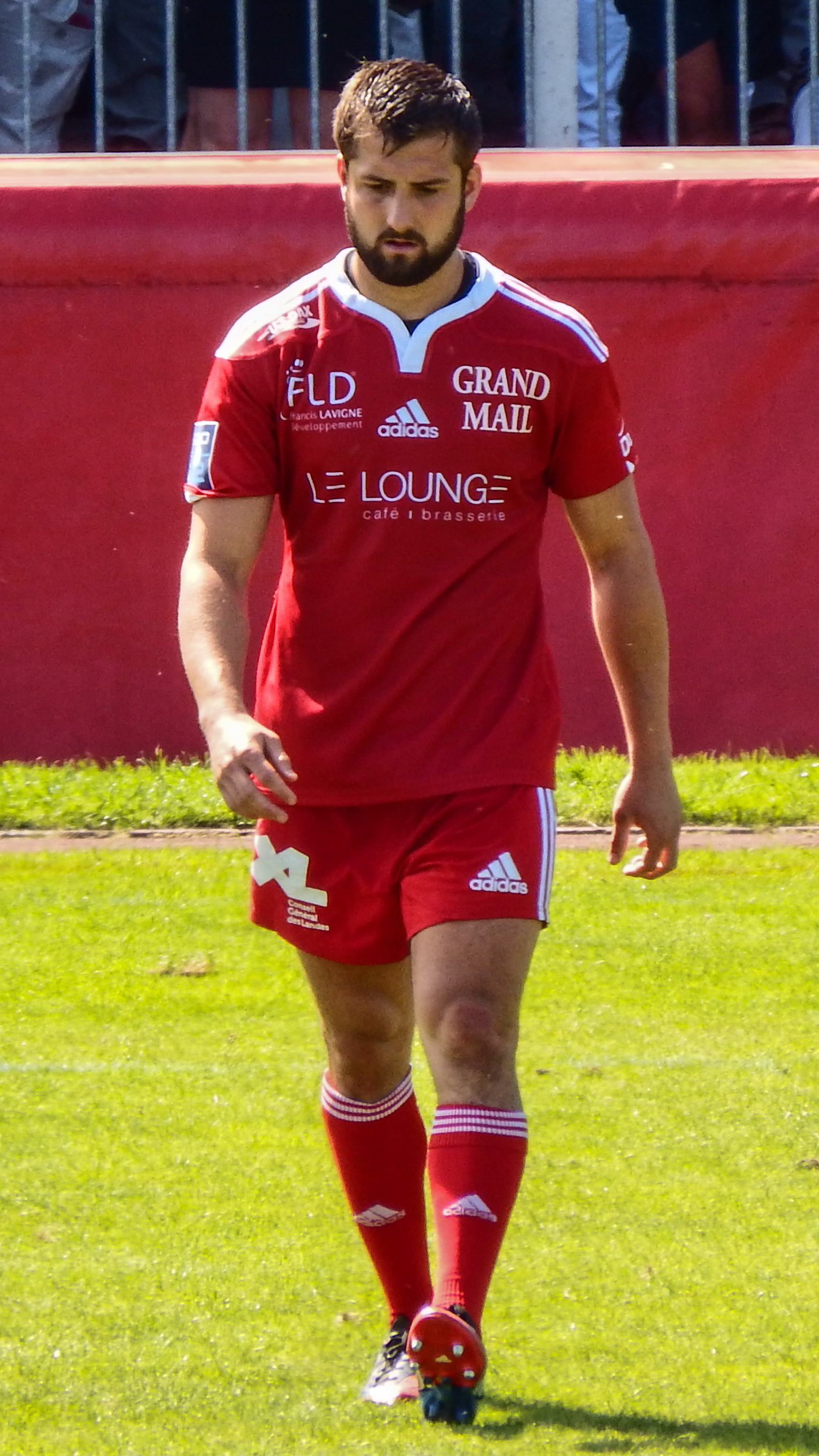 Pro D2 2014-2015 — 10 May 2015, Stade Maurice-Boyau. Match between: US Dax — Biarritz Olympique